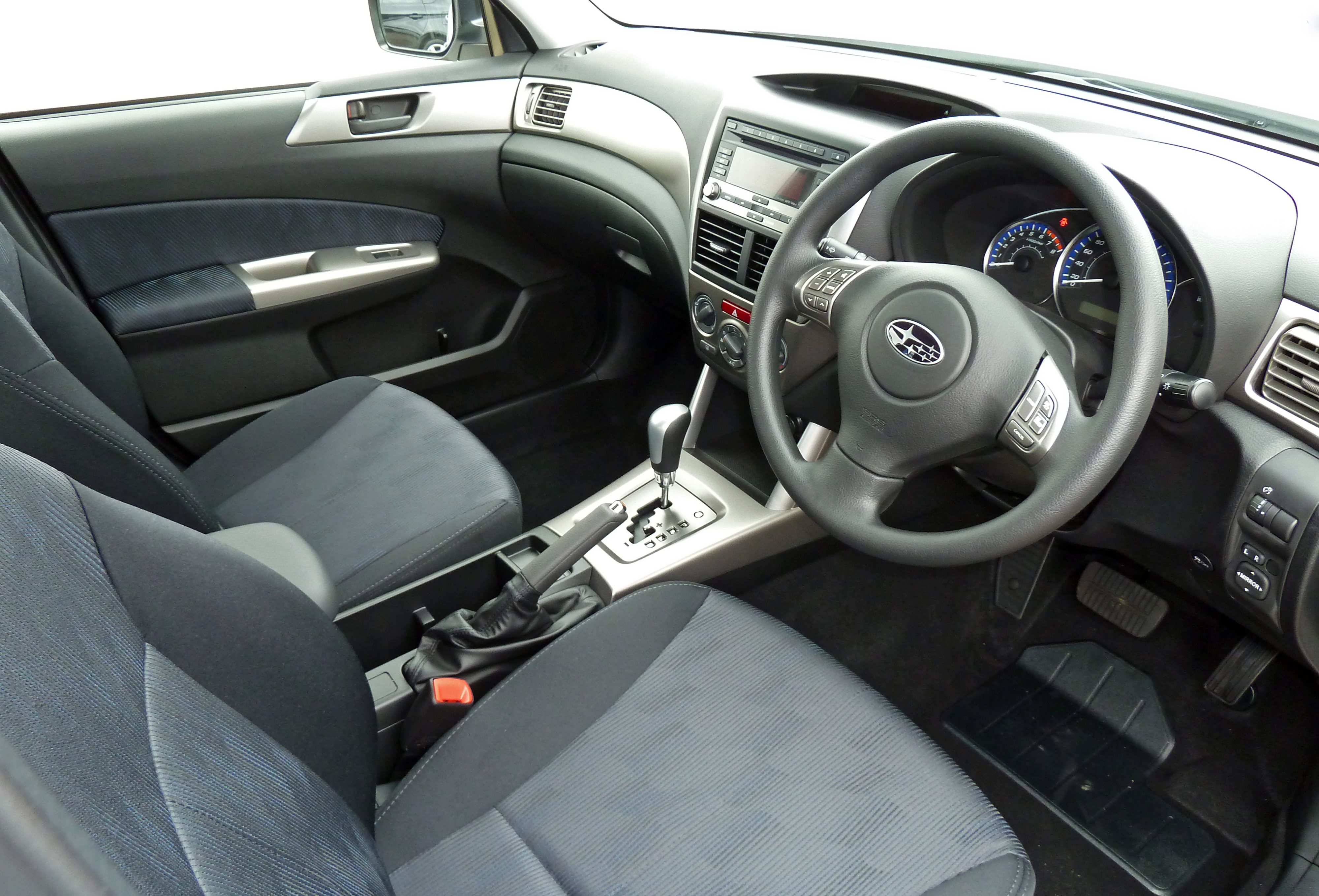 2010 Subaru Forester (SH9 MY10) X wagon. Photographed at Suttons Subaru, Chullora, New South Wales, Australia.